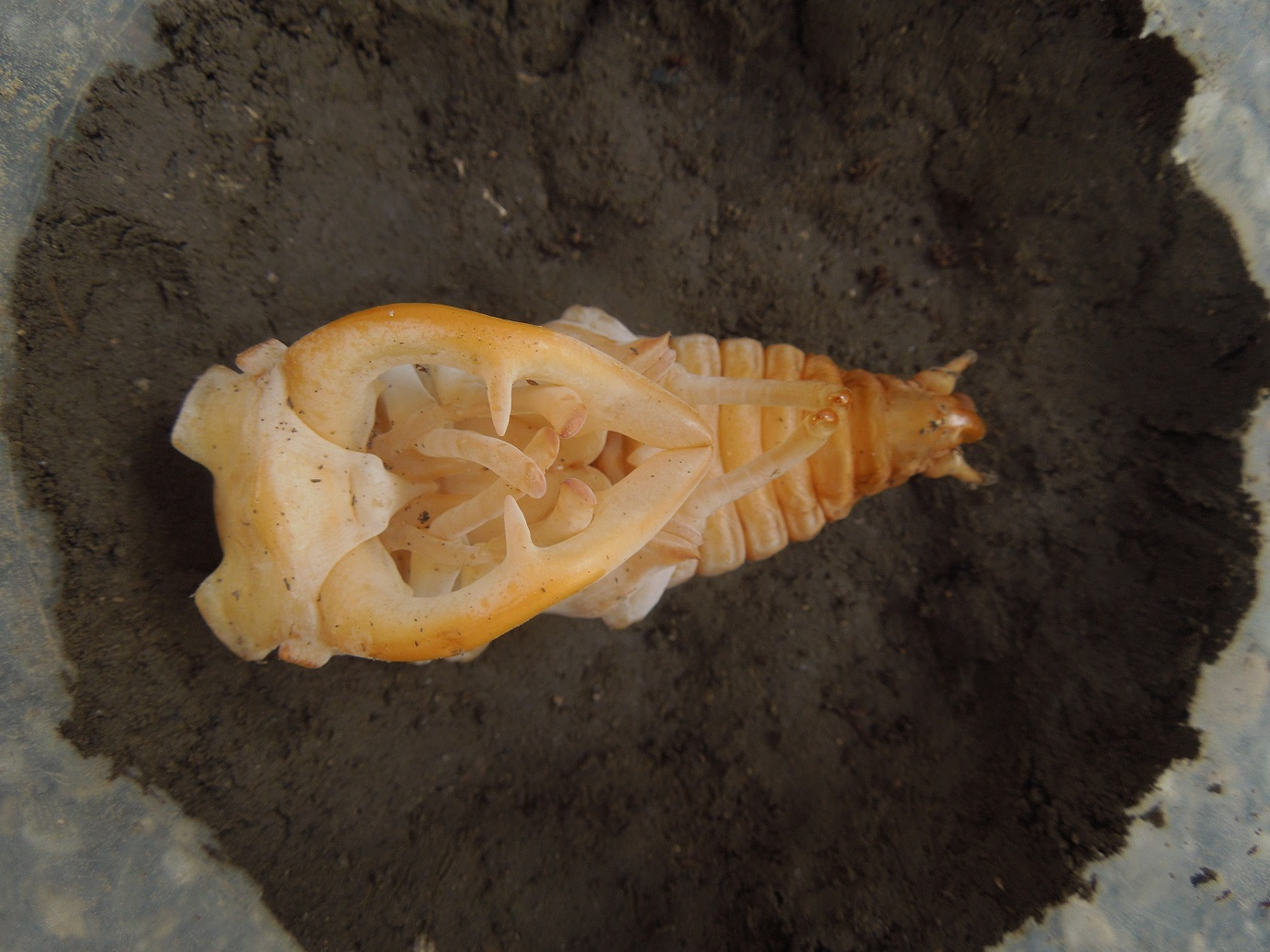 Pupa of Lucanus cervus akbsianus